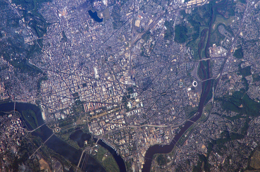 Astronaut photo of Washington, D.C. This picture was taken as the International Space Station passed over the western border of Maryland and West Virginia. The resolution and spatial coverage of this image are similar to the 15-meter-per-pixel data obtained by sensors onboard the Landsat 7 and Terra satellites. Recognizable in this image are the Capitol Building, the Washington Monument (and its shadow), and the Lincoln Memorial, along the northeast bank of the Potomac River. Astronaut photograph ISS013-E-13549 was acquired May 2, 2006, with a Kodak 760C digital camera using an 800 mm lens, and is provided by the ISS Crew Earth Observations experiment and the Image Science & Analysis Group, Johnson Space Center. The image in this article has been cropped and enhanced to improve contrast. The International Space Station Program supports the laboratory to help astronauts take pictures of Earth that will be of the greatest value to scientists and the public, and to make those images freely available on the Internet. Additional images taken by astronauts and cosmonauts can be viewed at the NASA/ JSC Gateway to Astronaut Photography of Earth.